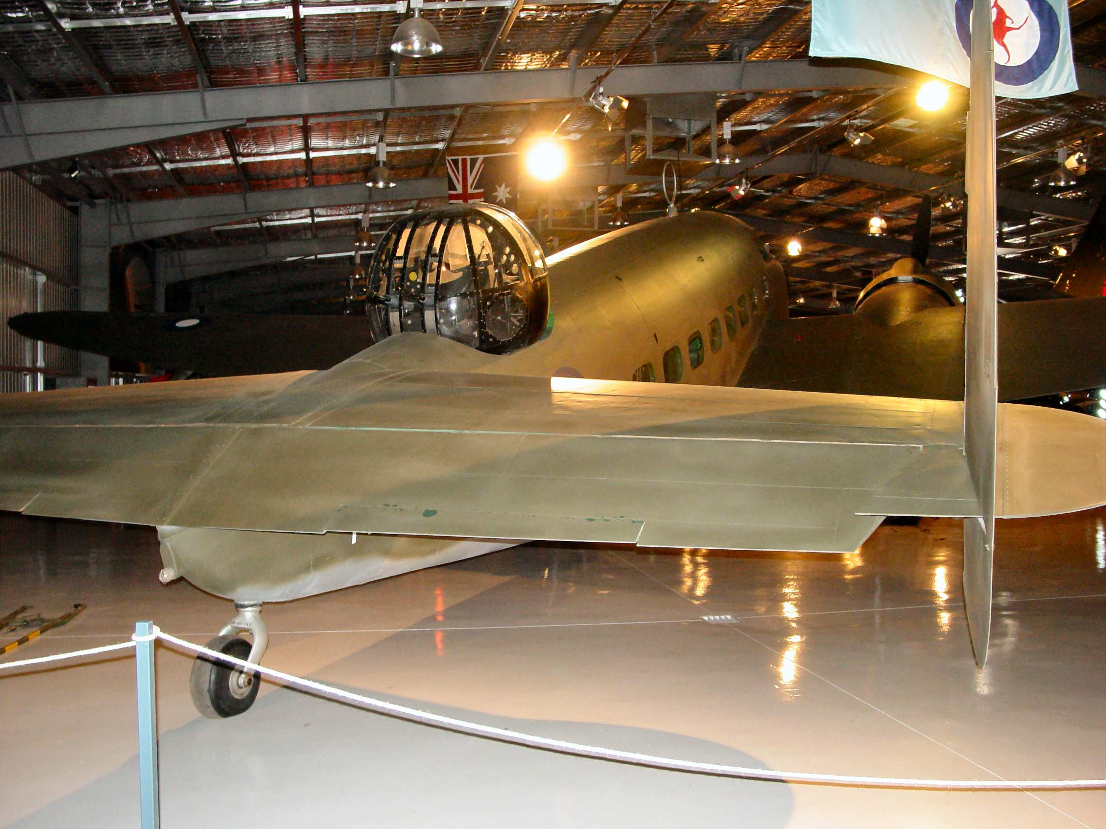 This is a Hudson Bomber that was converted for passenger use after World War II and flown by East-West Airlines in Australia. It is currently located at Temora Aviation Museum.